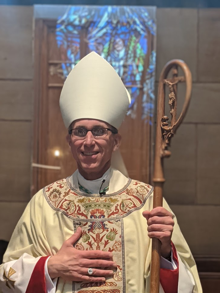 A photo of Bishop Donald DeGrood of Sioux Falls in the sacristy of the Cathedral of Saint Paul in Saint Paul, Minnesota.